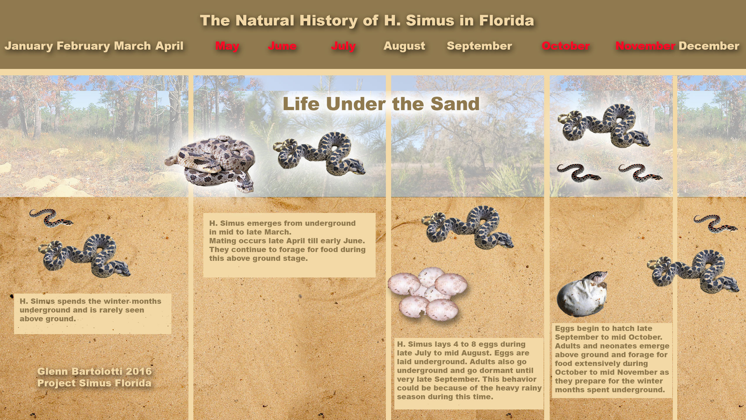 Describes the natural history of H. Simus